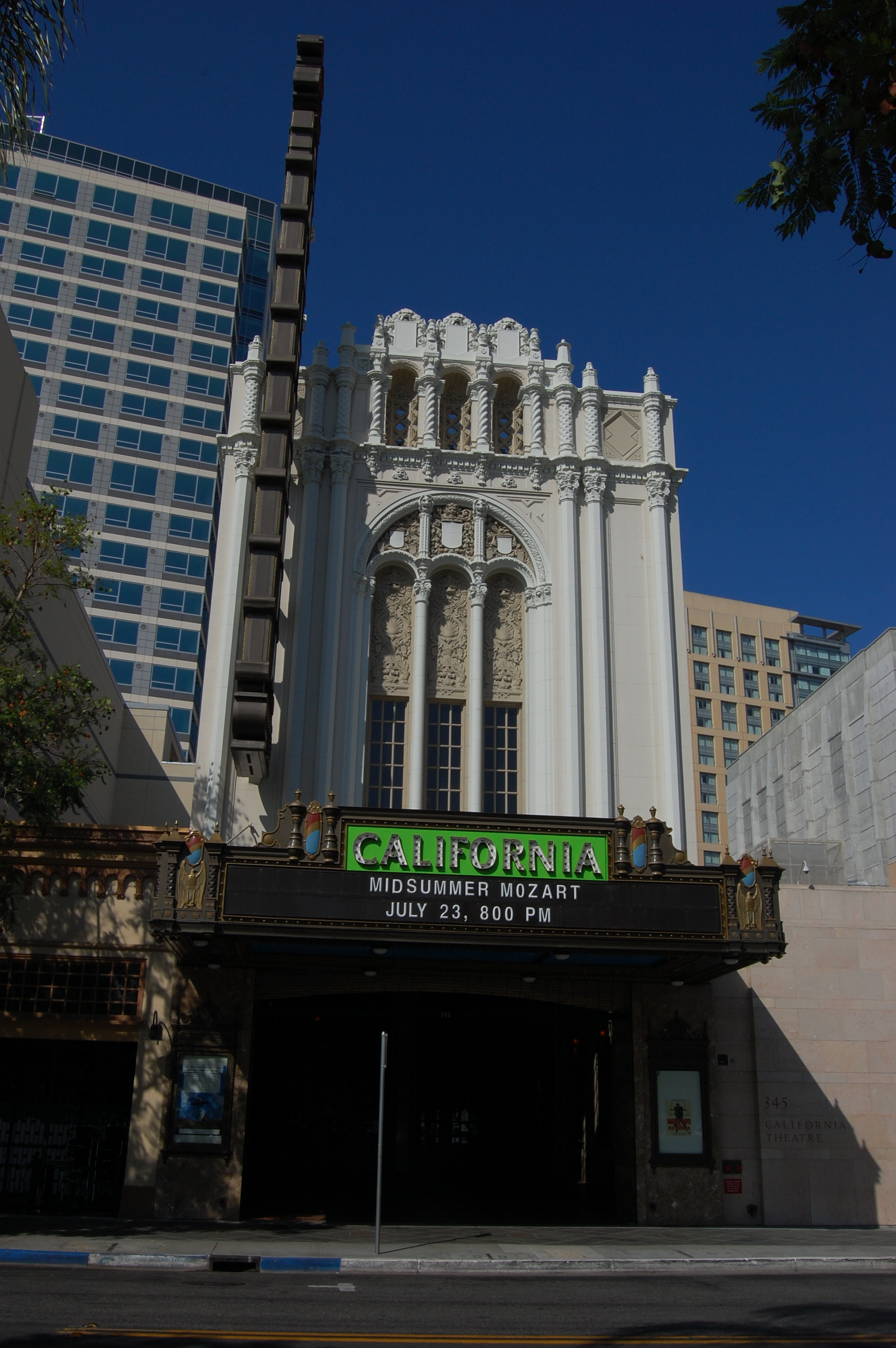 Fox theater (California theater). Spanish Baroque style, built circa 1927. 345 South First Street. San Jose, California, USA